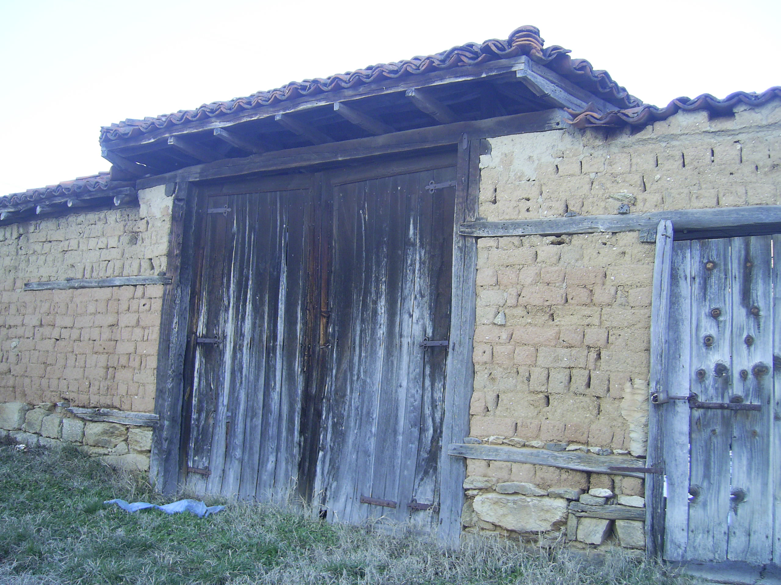 ``Порта и Дувар`` с.Горно Черковище